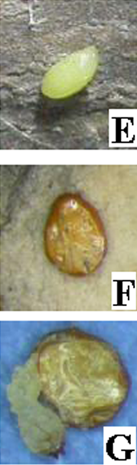 Stages of egg development in Agrilus planipennis (emerald ash borer). (E) fresh egg; (F) mature egg; (G) hatching